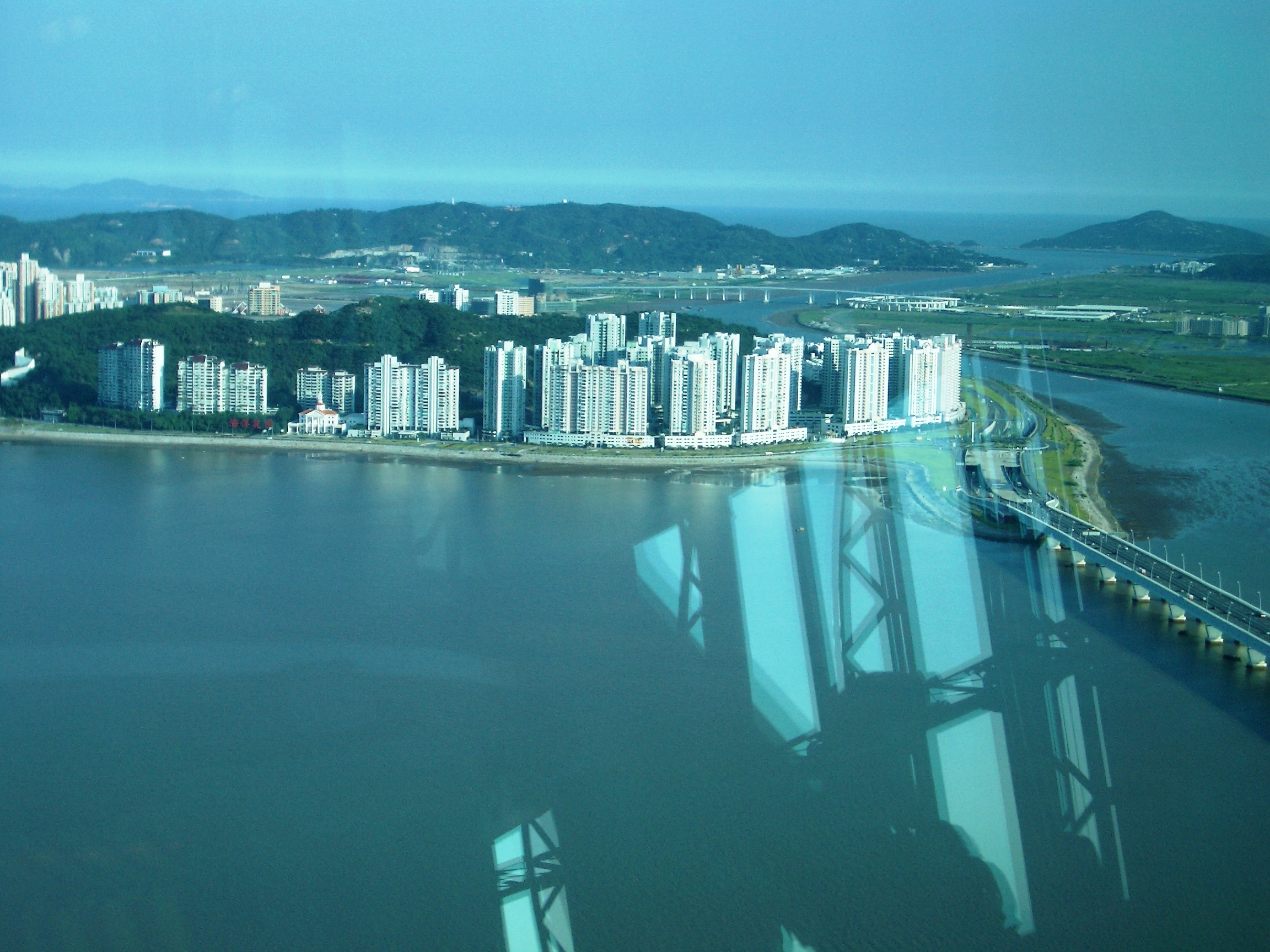 Taipa (front), Coloane (back), Sai Van Bridge (foreground) and Lotus Bridge (back) from Macau Tower